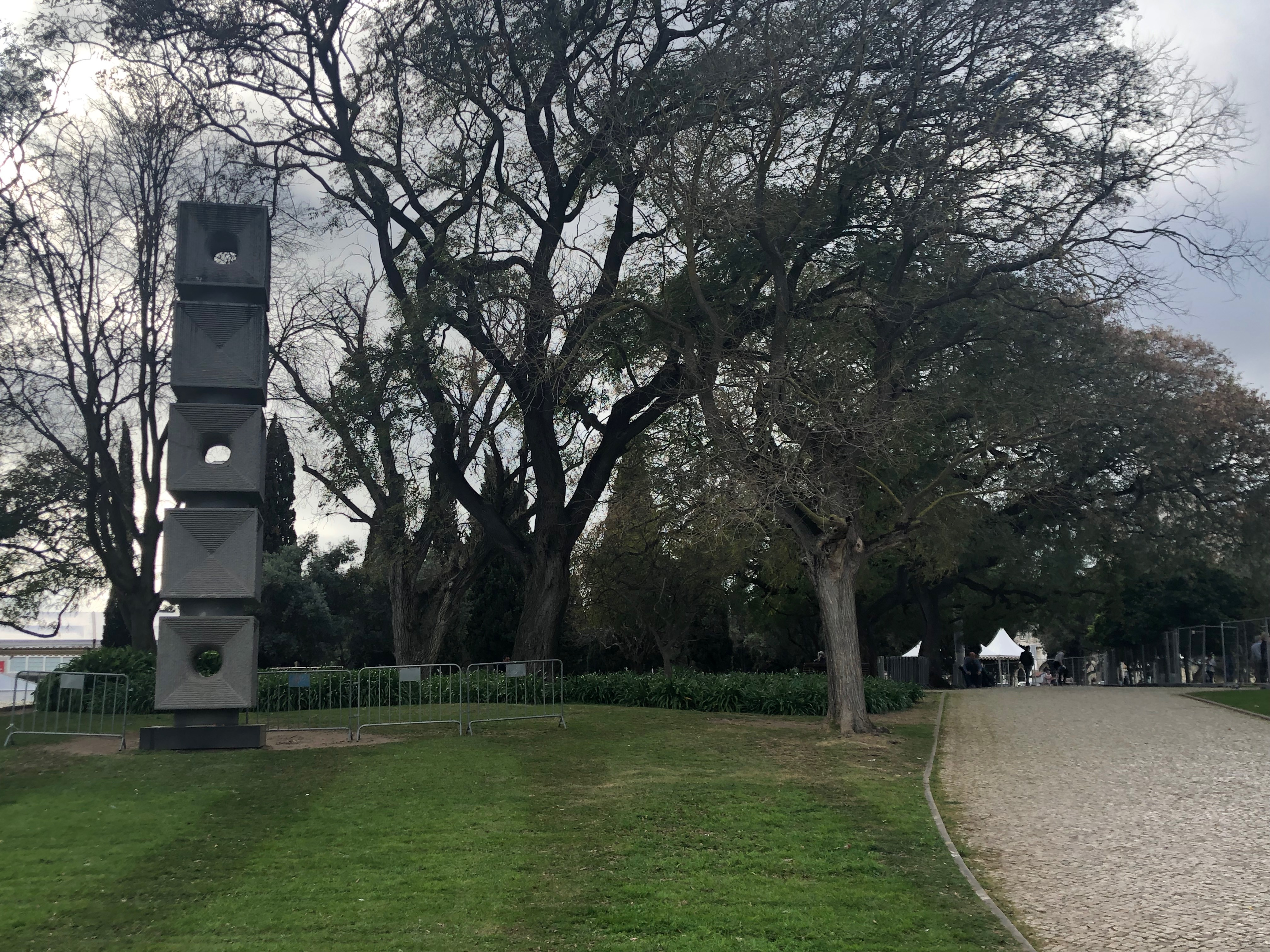 Castle of the Eye in Belem, Portugal. 1994.